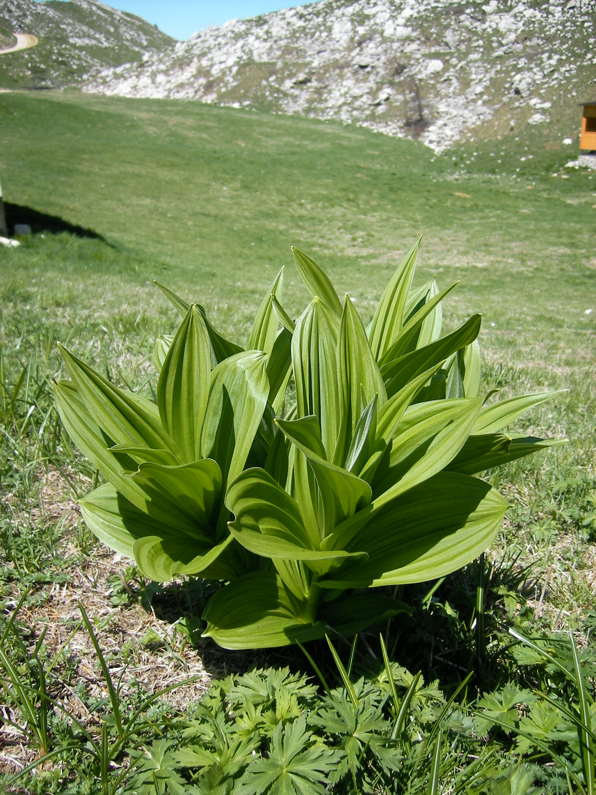 Veratrum album, Monte Baldo, Lake Garda, Italy